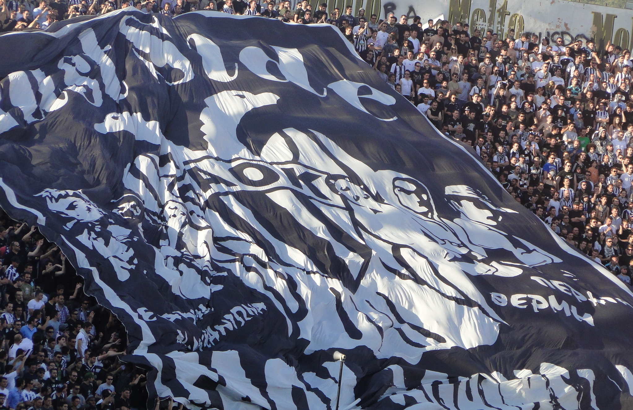 Paok fans in Toumba.